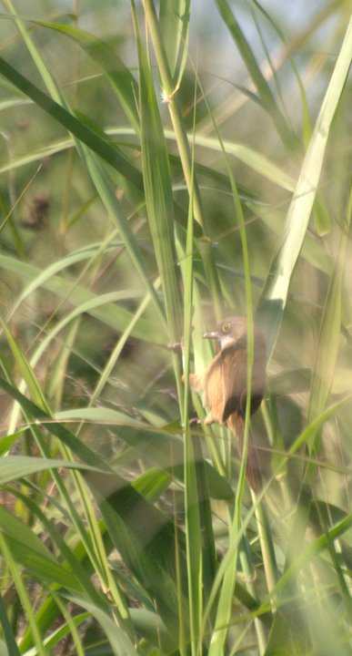 Jerdon's Babbler. Subspecies griseigularis. Shot at Maguri Bheel, Assam.